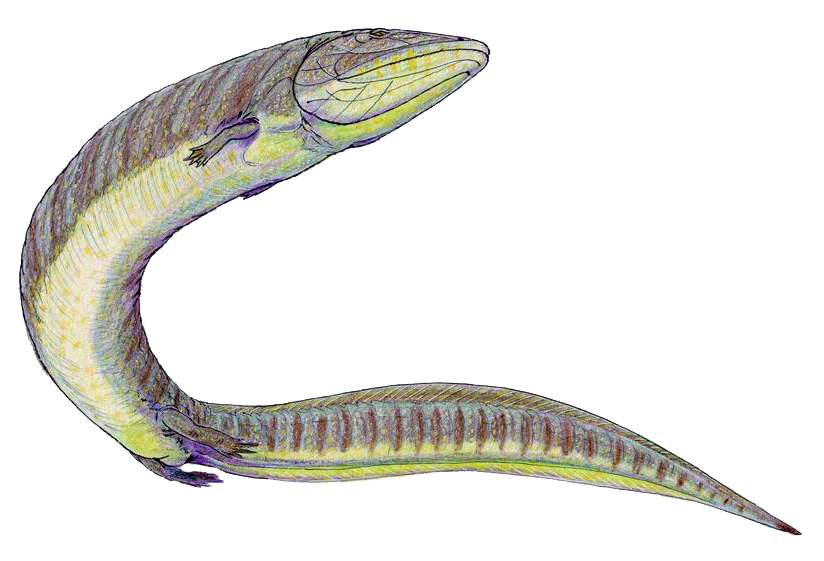 Pteroplax, Hancock and Atthby 1868